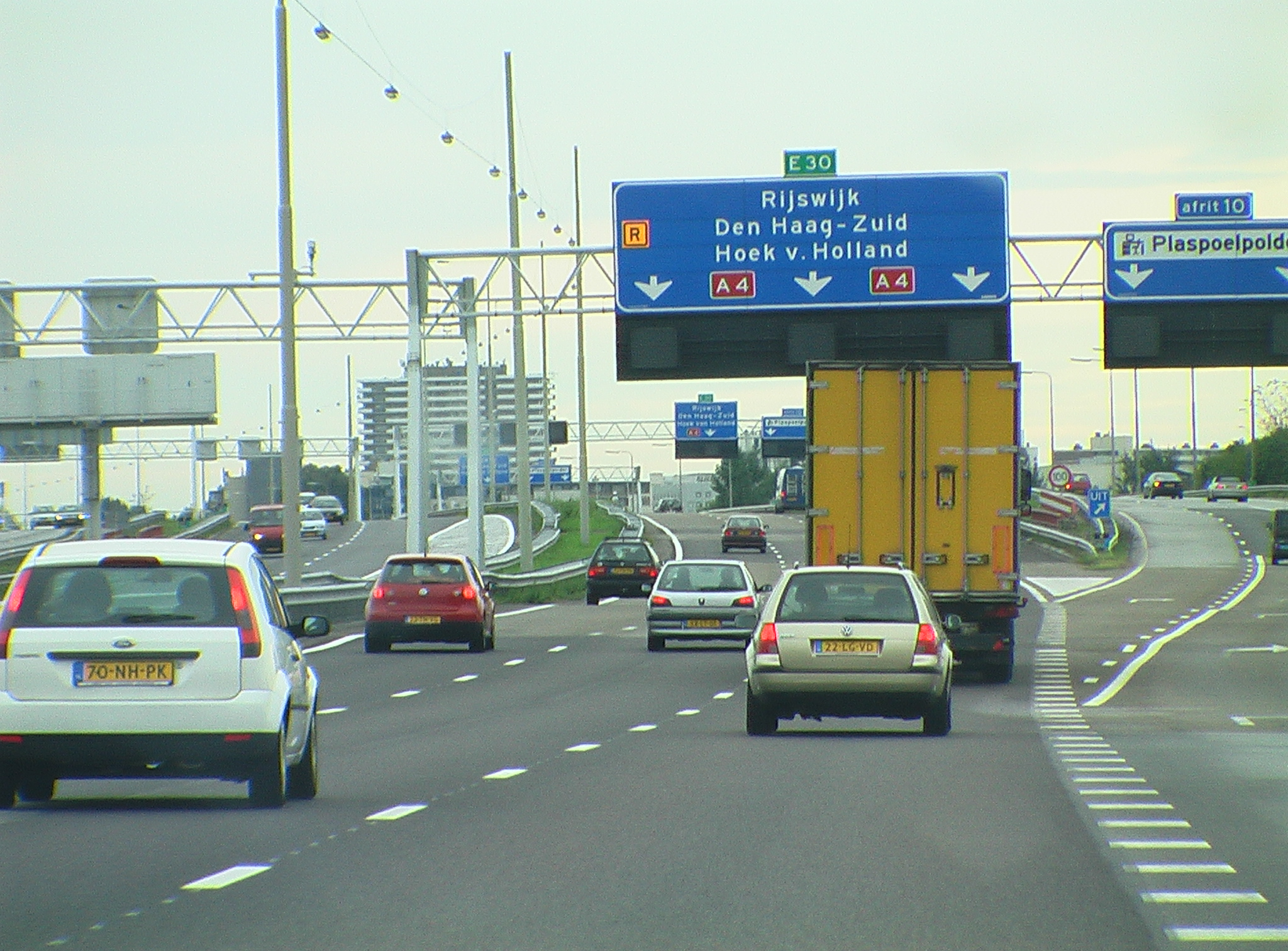 Road A4 Netherlands